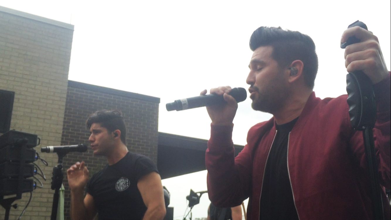 Dan+Shay perform in Nashville